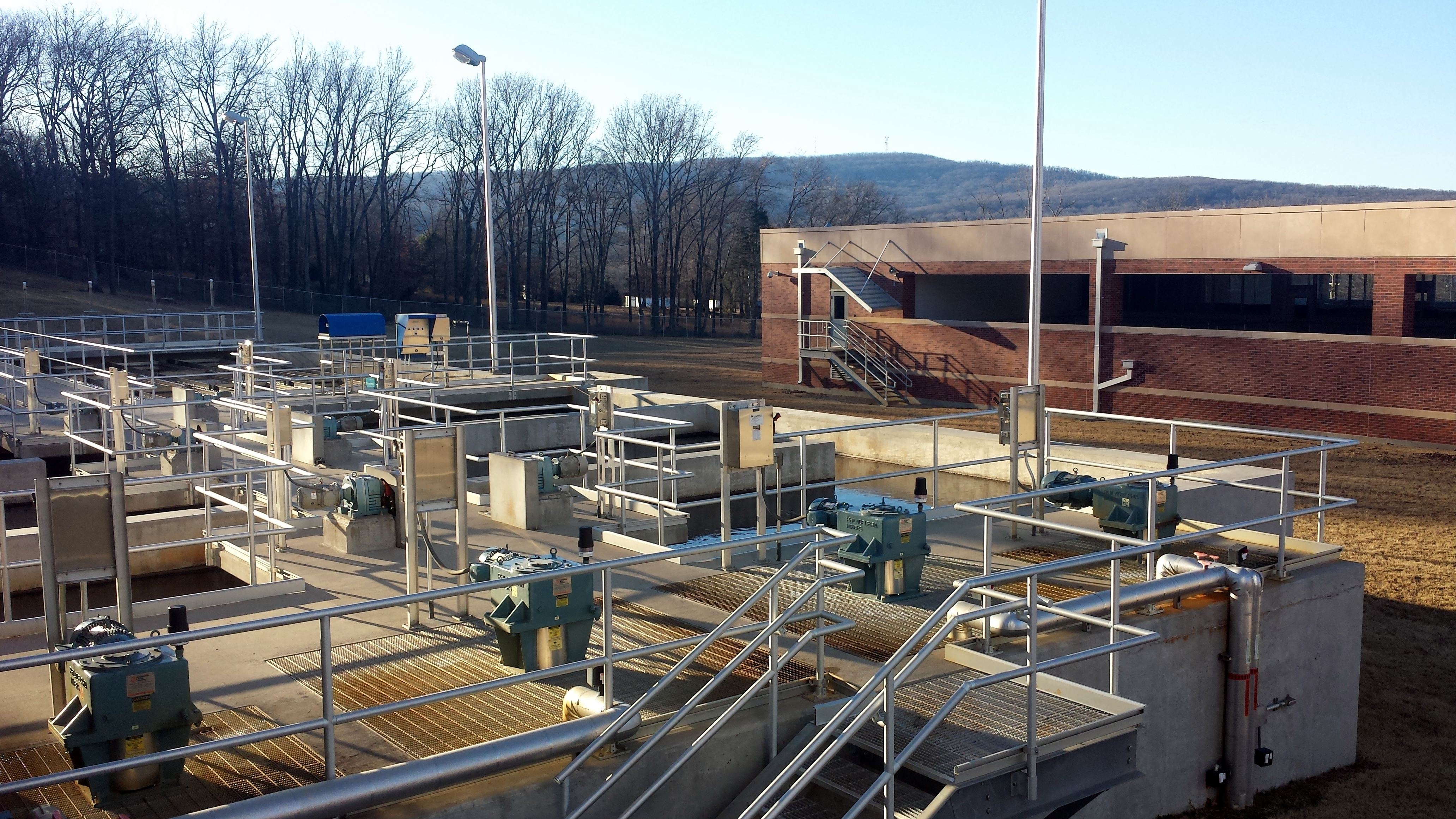 View of coagulant and flocculators, with filter building in background